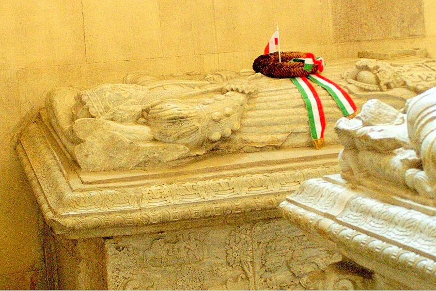 Queen,s Izabela Jagielonka tombstone in St. Michael's Cathedral of Alba Julia (Romania)